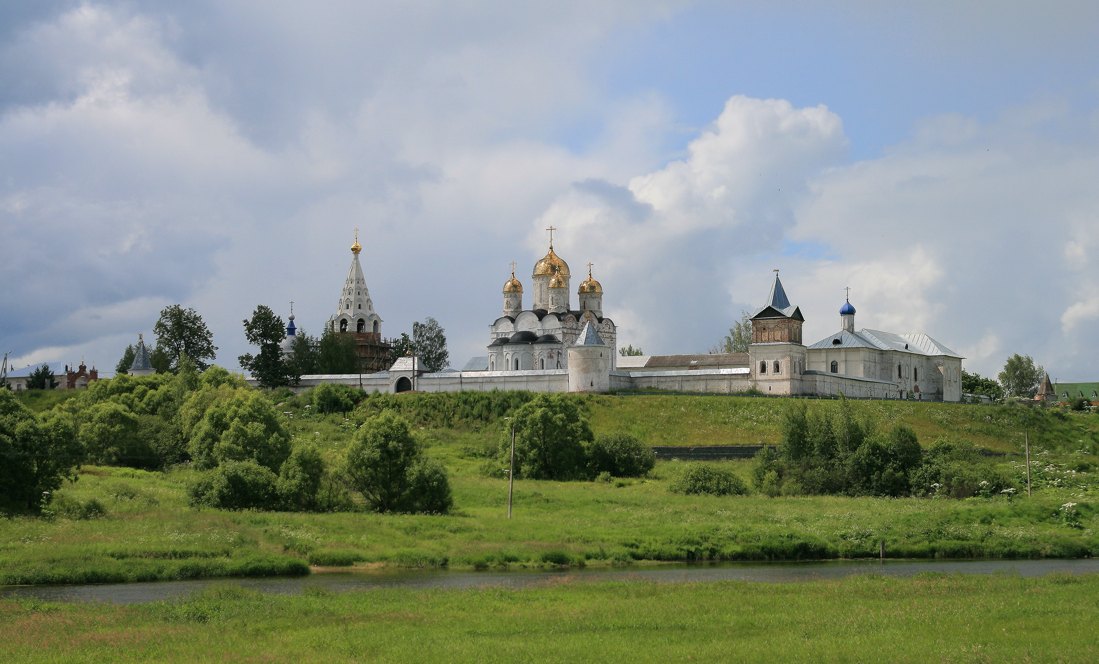 Luzhetsky Monastery, Mozhaysk, Moscow Region, Russia